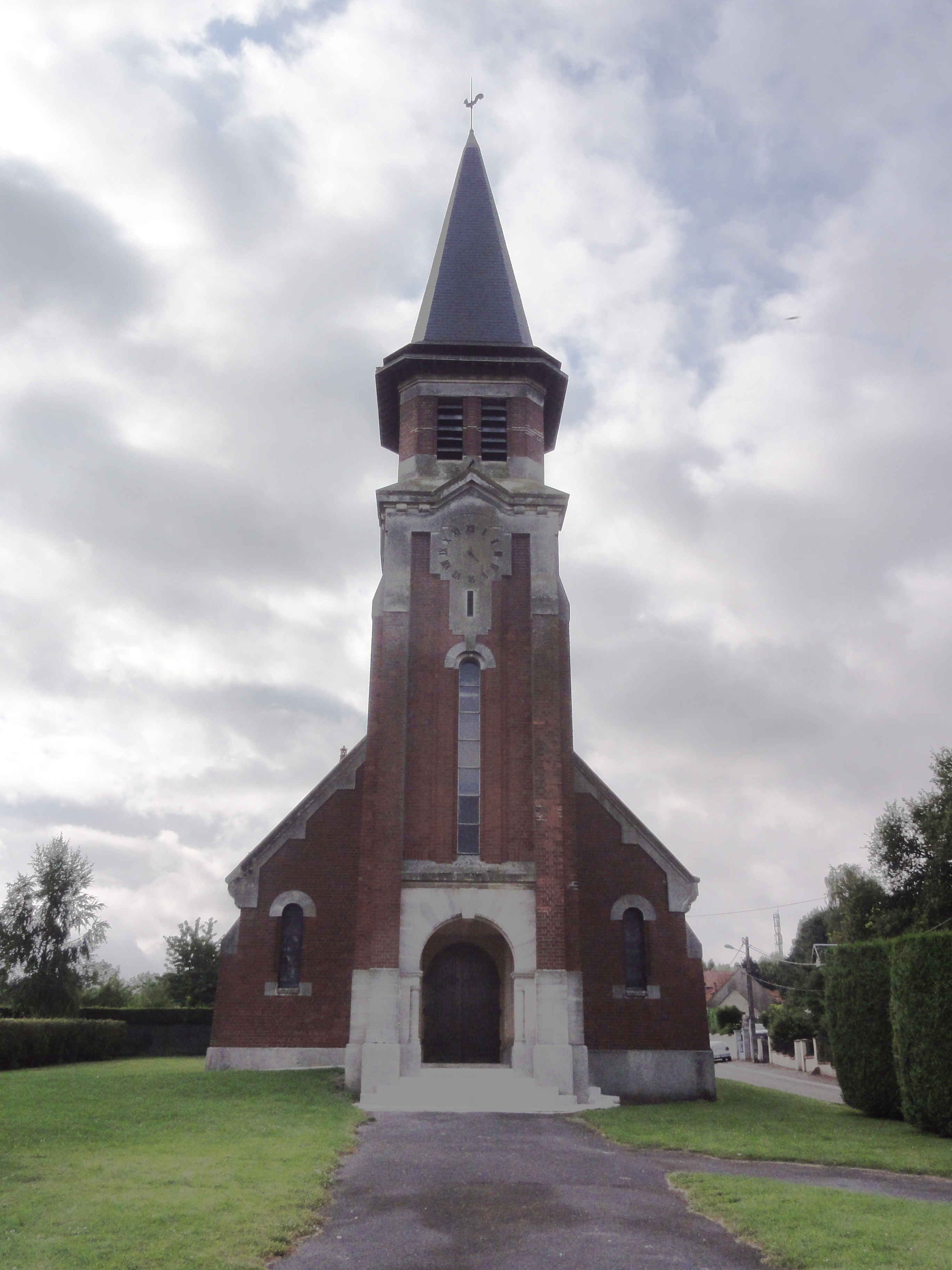 Attilly (Aisne) église Saint-Martin